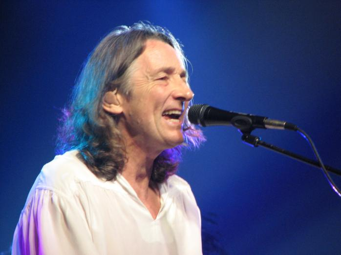 A Taste of Summer Festival - June 10, 2007